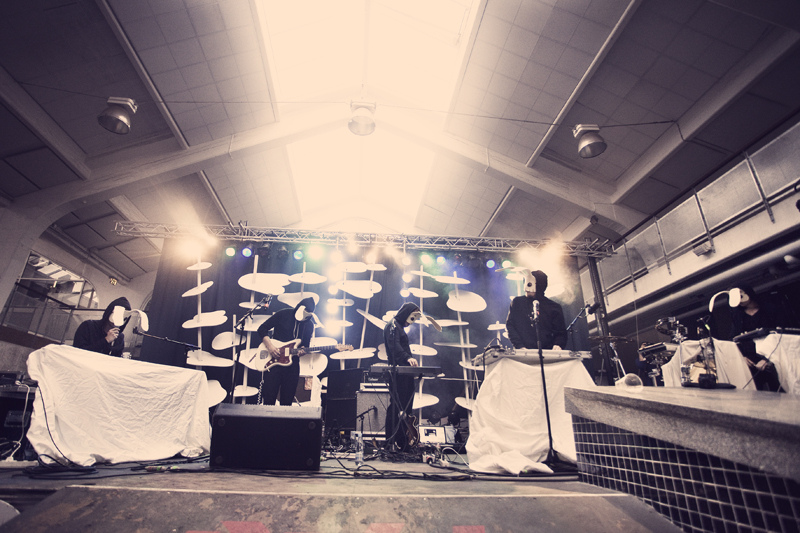 Sleep Party People, musical group from Denmark